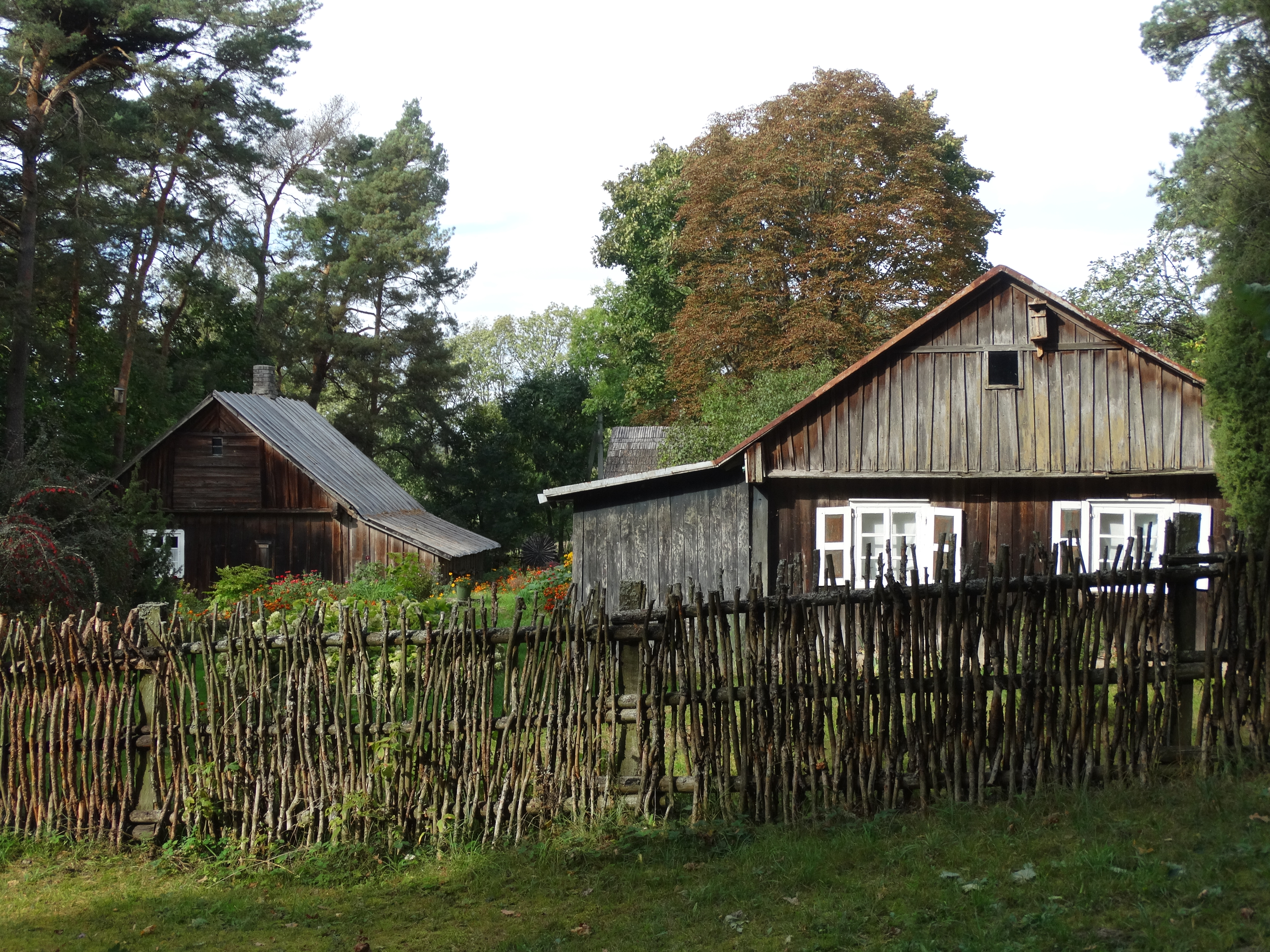 Davatkynas, Naujasodis, Prienai district, Lithuania